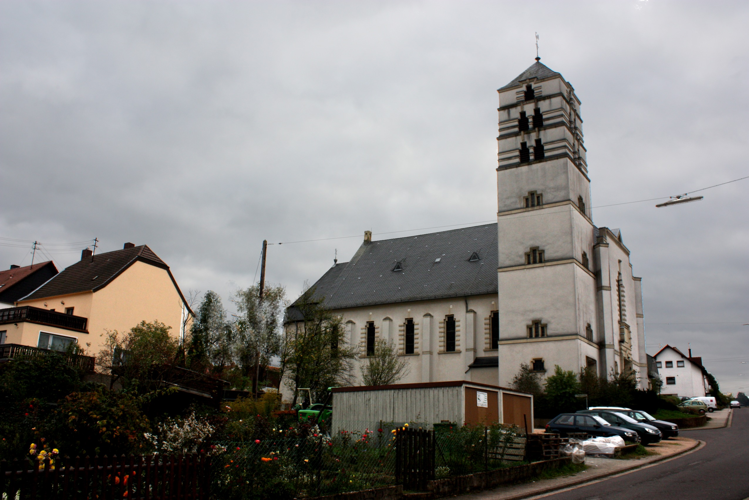 Bubach (Eppelborn), the church St. Laurentius